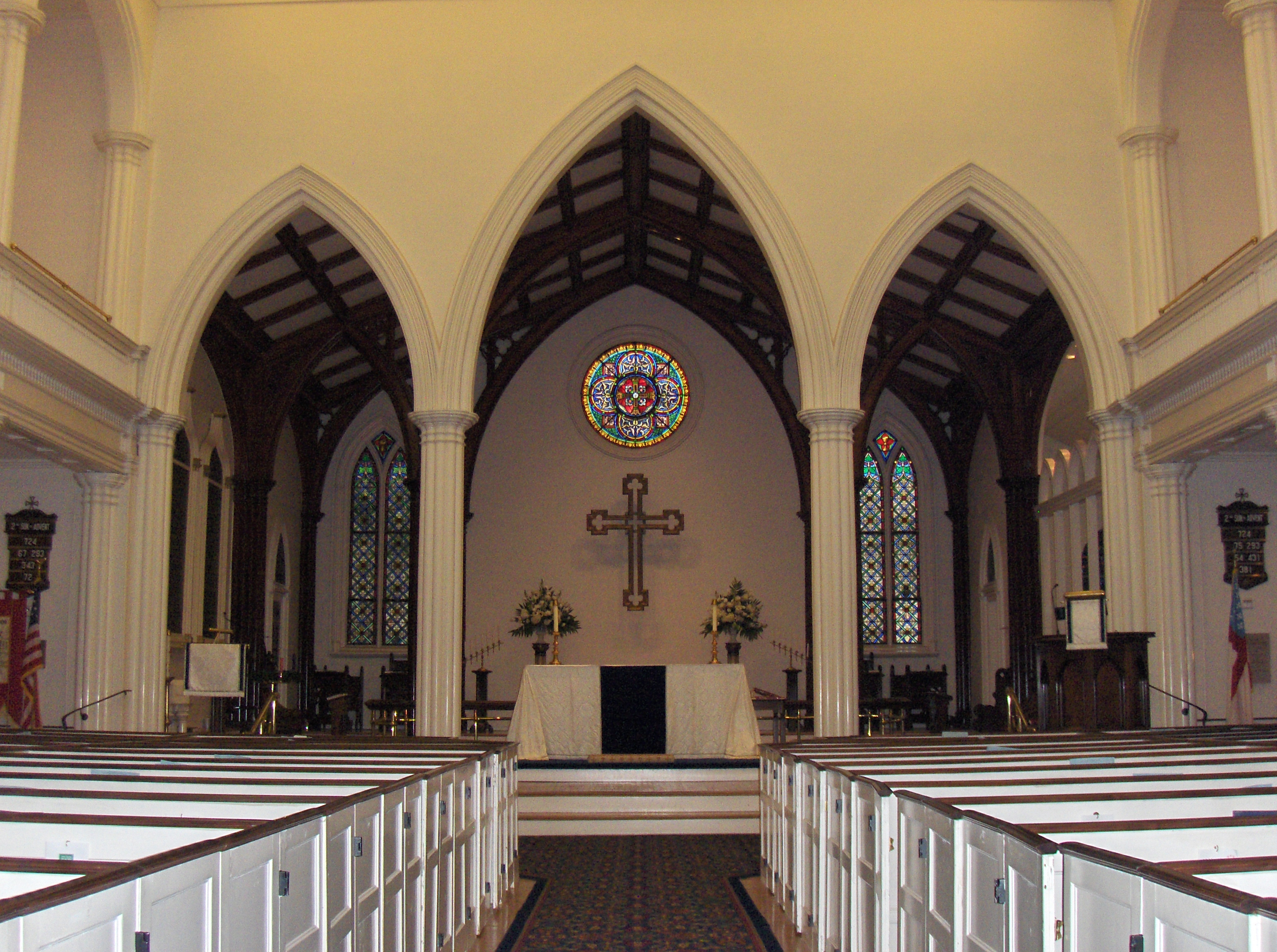 Interior of St. Paul’s Episcopal Church, Alexandria, Virginia, showing recessed chancel and altar as of 2008.